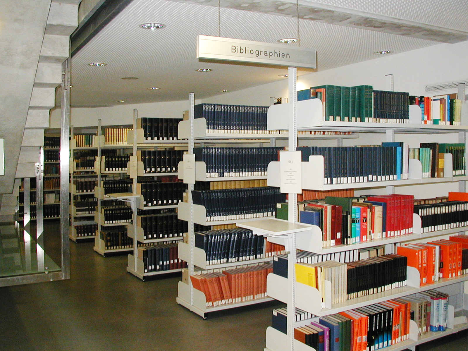 Open shelves with bibliographies in the University Library of Graz (Austria). Picture taken and uploaded by Dr. Marcus Gossler.